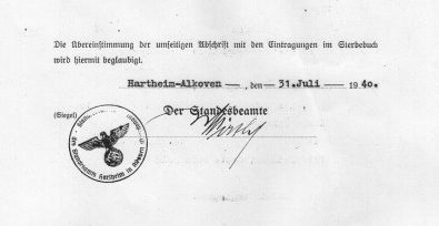 Signature of Christian Wirth, Hartheim 1940